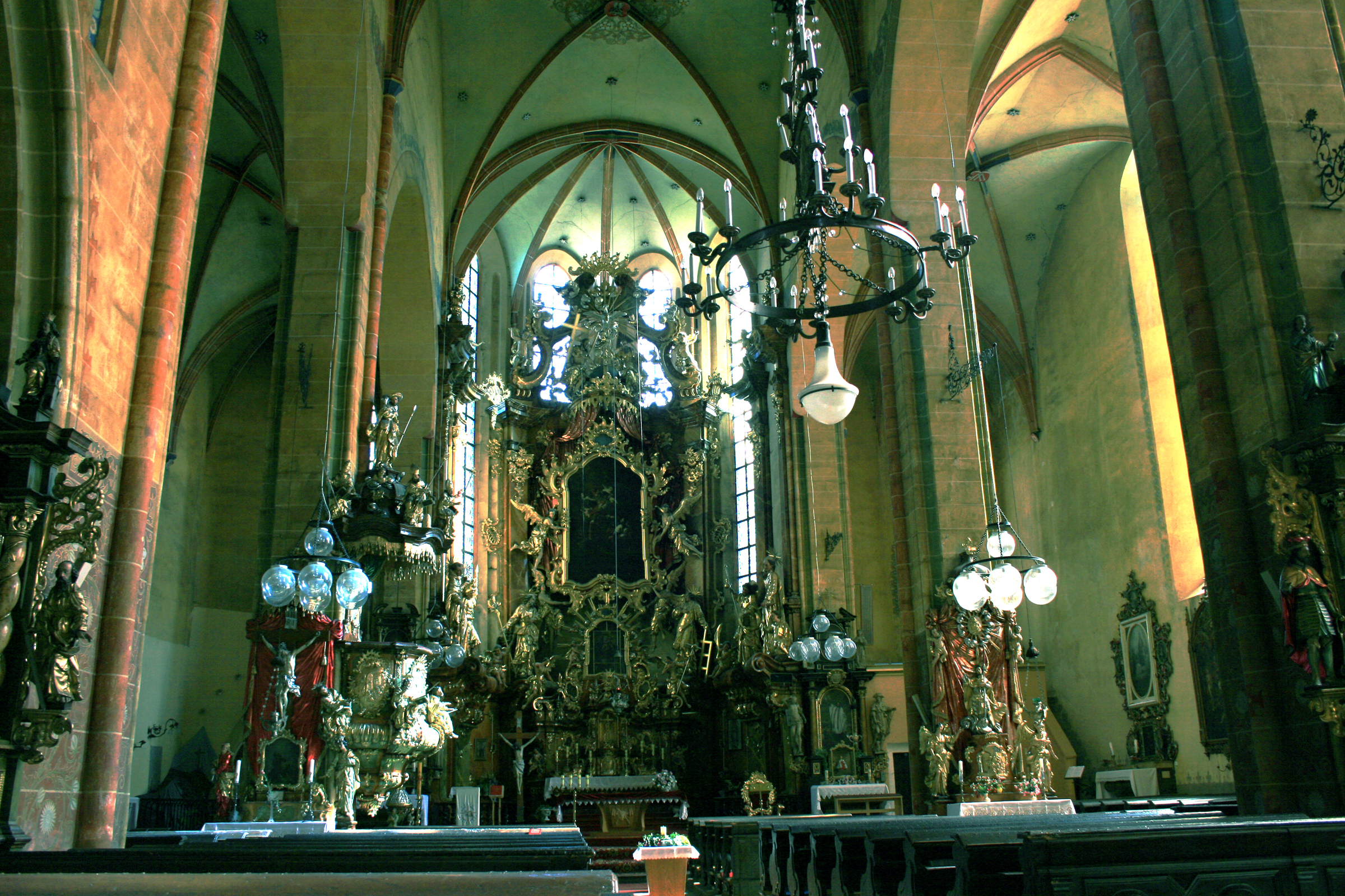 Main altar in Church of st Nicolas in Jaroměř, east Bohemia, Czech Republic